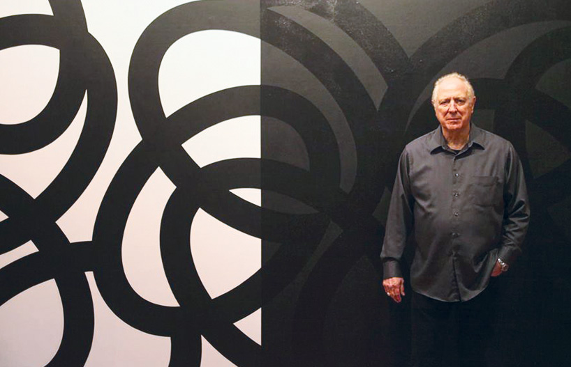 Corey Postiglione at his exhibit, Population 5.